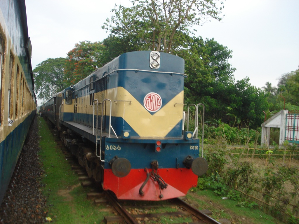 ALCO 6016 hauled mail train near Jessore, Bangladesh